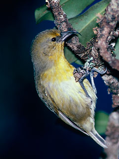 An ʻAkiapolaʻau (Hemignathus munroi) attempting to extract insects from a tree branch. Author: United States Fish and Wildlife Service Source: Downloaded from Upload date: 2009-02-15